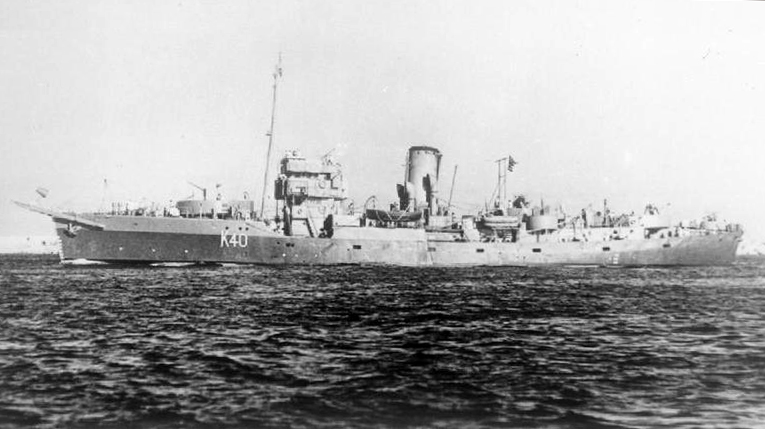 Flower class corvette RHS Sakhtouris of the Royal Hellenic Navy (1943-1951) underway. Previously HMS Peony (K40) of the Royal Navy (1940-1943)